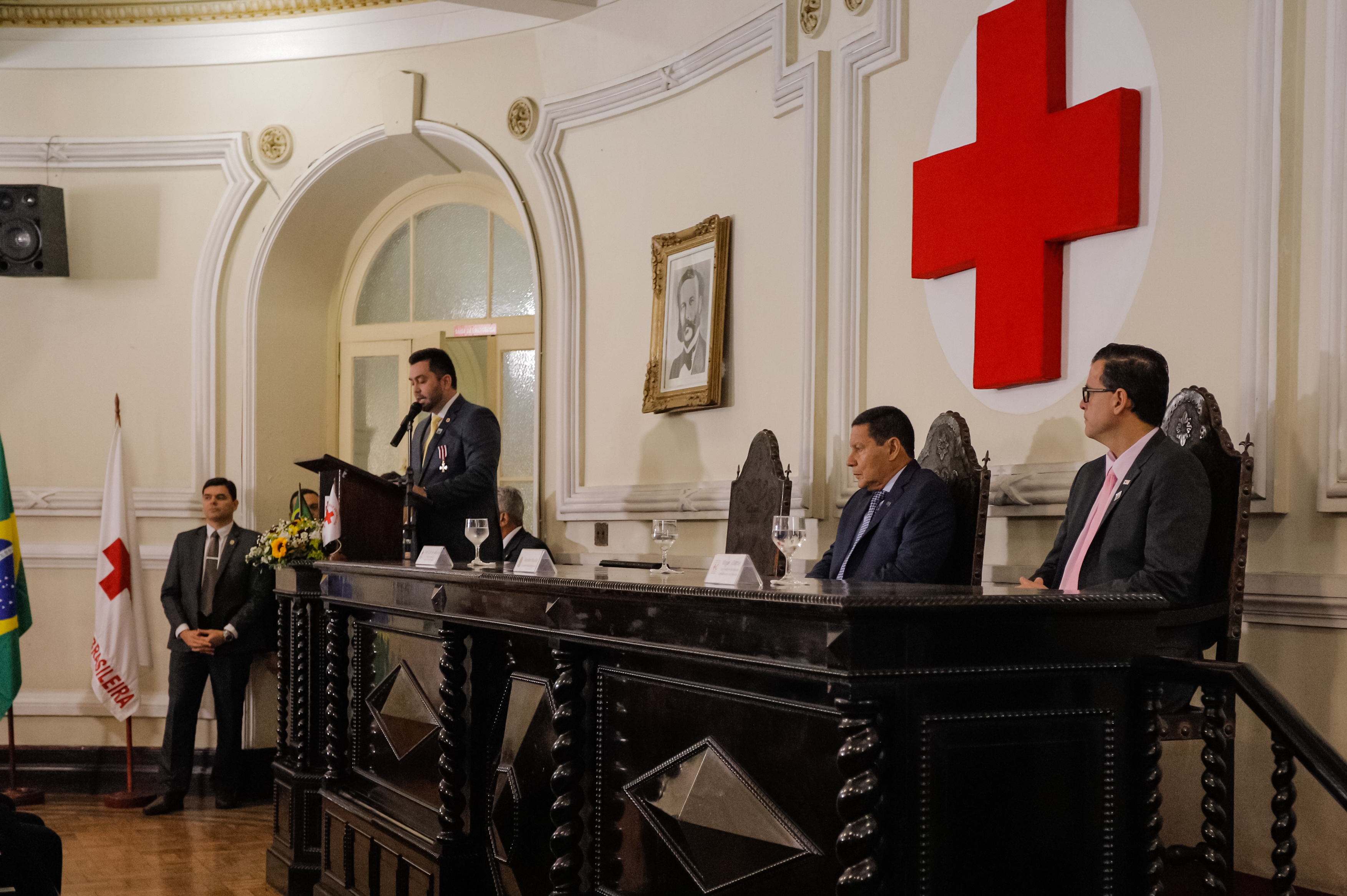 (Rio de Janeiro - RJ, 24/09/2019) Palavras do Presidente da Cruz Vermelha Brasileira, Júlio de Cals. Foto: Romério Cunha/VPR